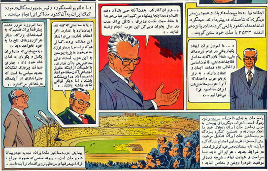 Rastakhiz Party at Regained Glory